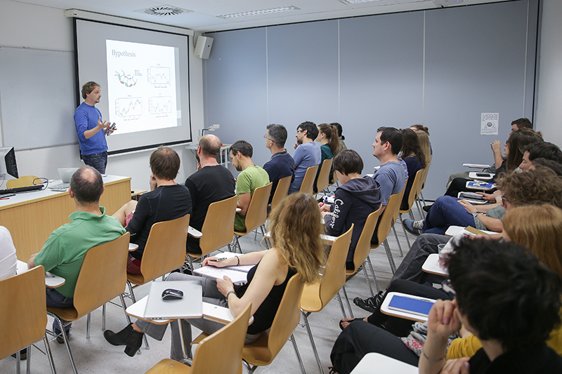 Training of the next generation of scientists at MFPL.